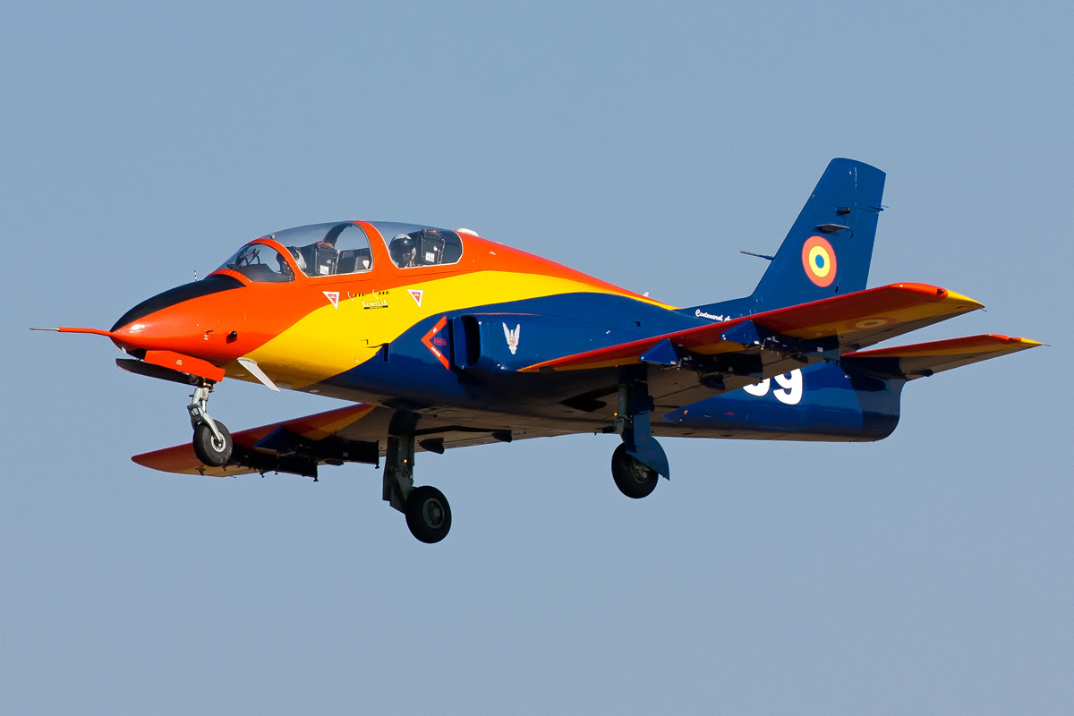 Suceava Ştefan cel Mare International Airport - Romanian Air Force, IAR-99 Șoim aircraft, 100th anniversary of aviation colours.